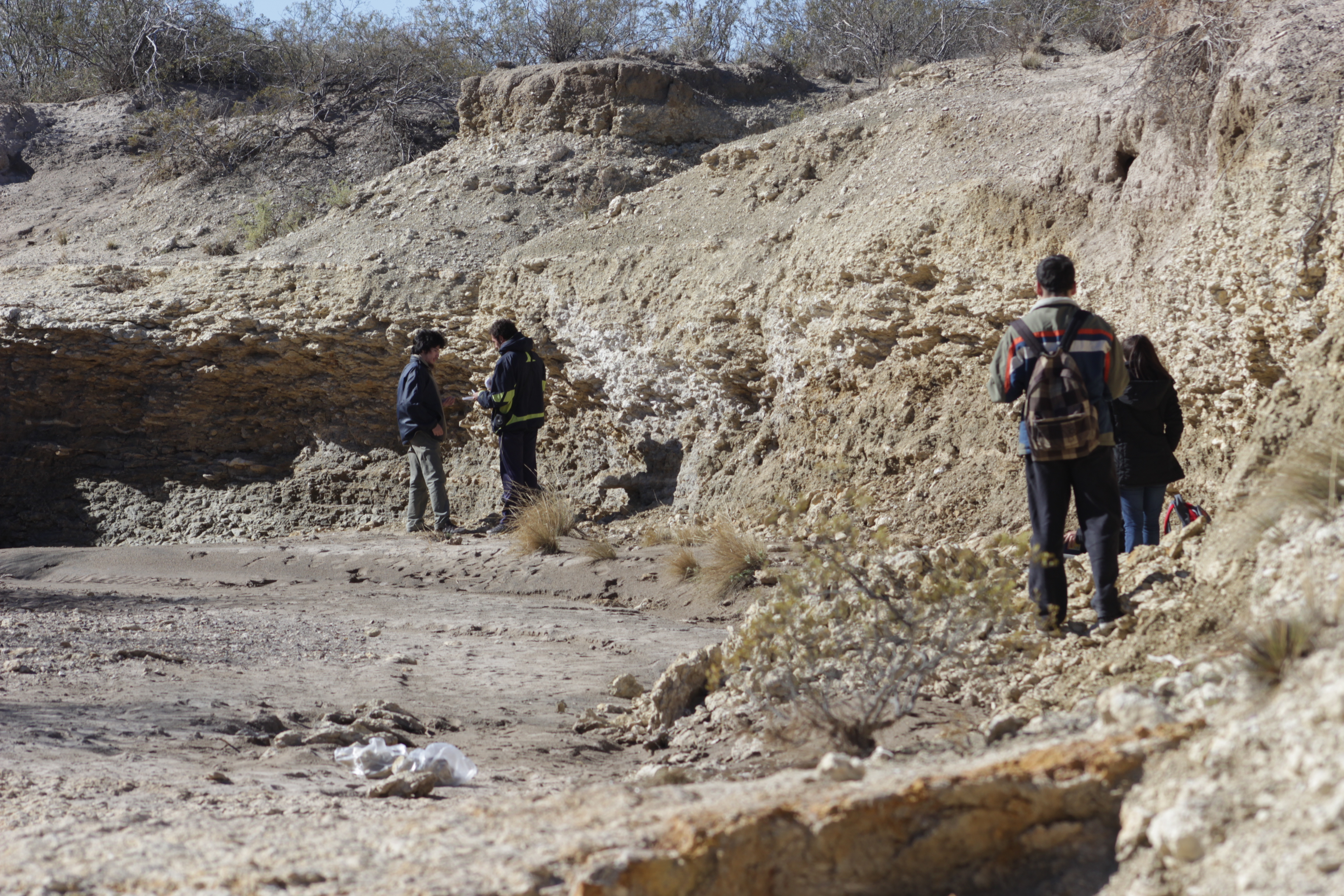 The pale bed constitutes the base of the Roca Formation (Danian) in Cañadón Cholini, General Roca, Río Negro, Patagonia, Argentina.